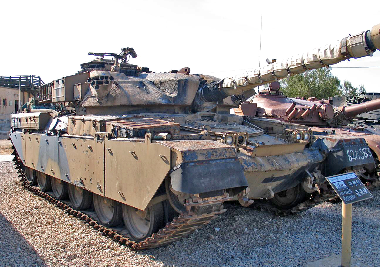 Description: FV 4201 Chieftain MBT in Yad la-Shiryon Museum, Israel. 2005. Source: Photo by me, User:Bukvoed.